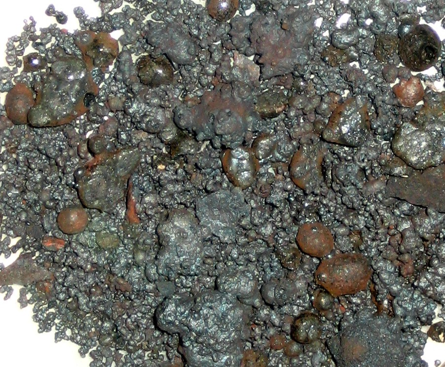 Boron (Museu de la Ciència i de la Tècnica de Catalunya, Terrassa, Spain)